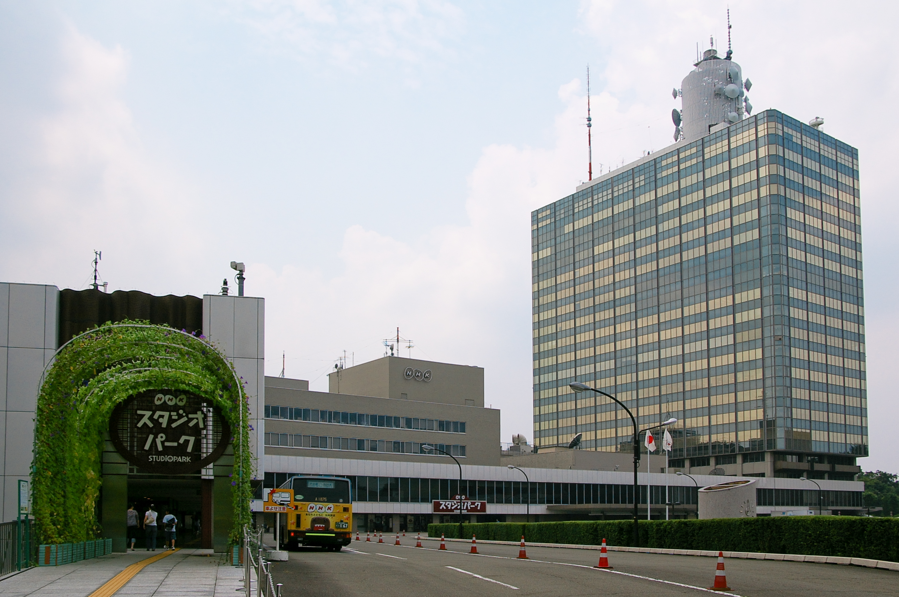 Photograph of NHK Broadcasting Center, headquarters of NHK (Japan Broadcasting Corporation), in Shibuya-ku, Tokyo, Japan.